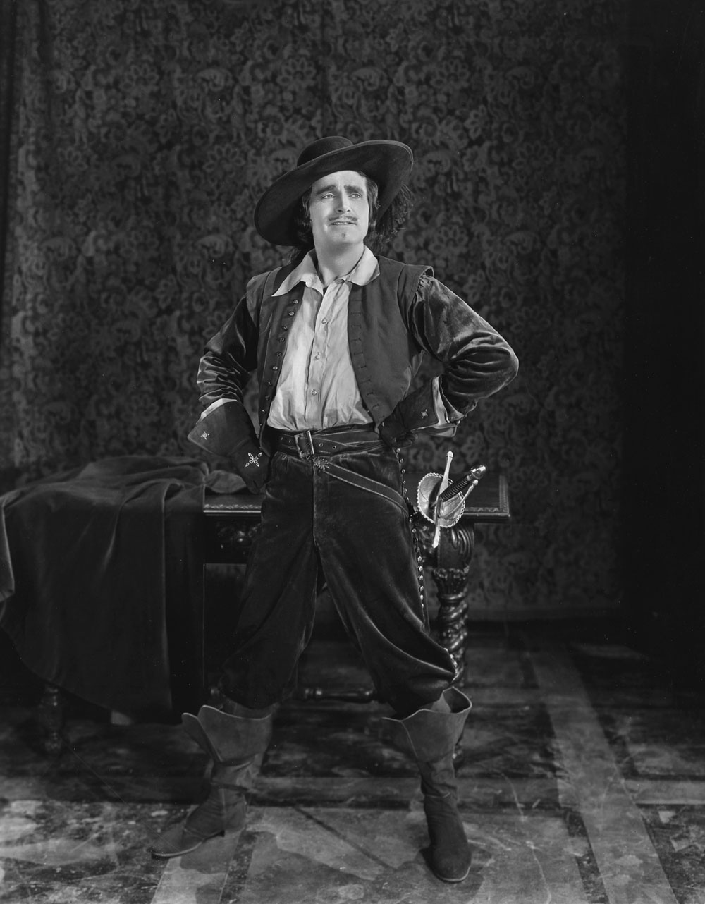 Douglas Fairbanks in The Iron Mask - publicity still